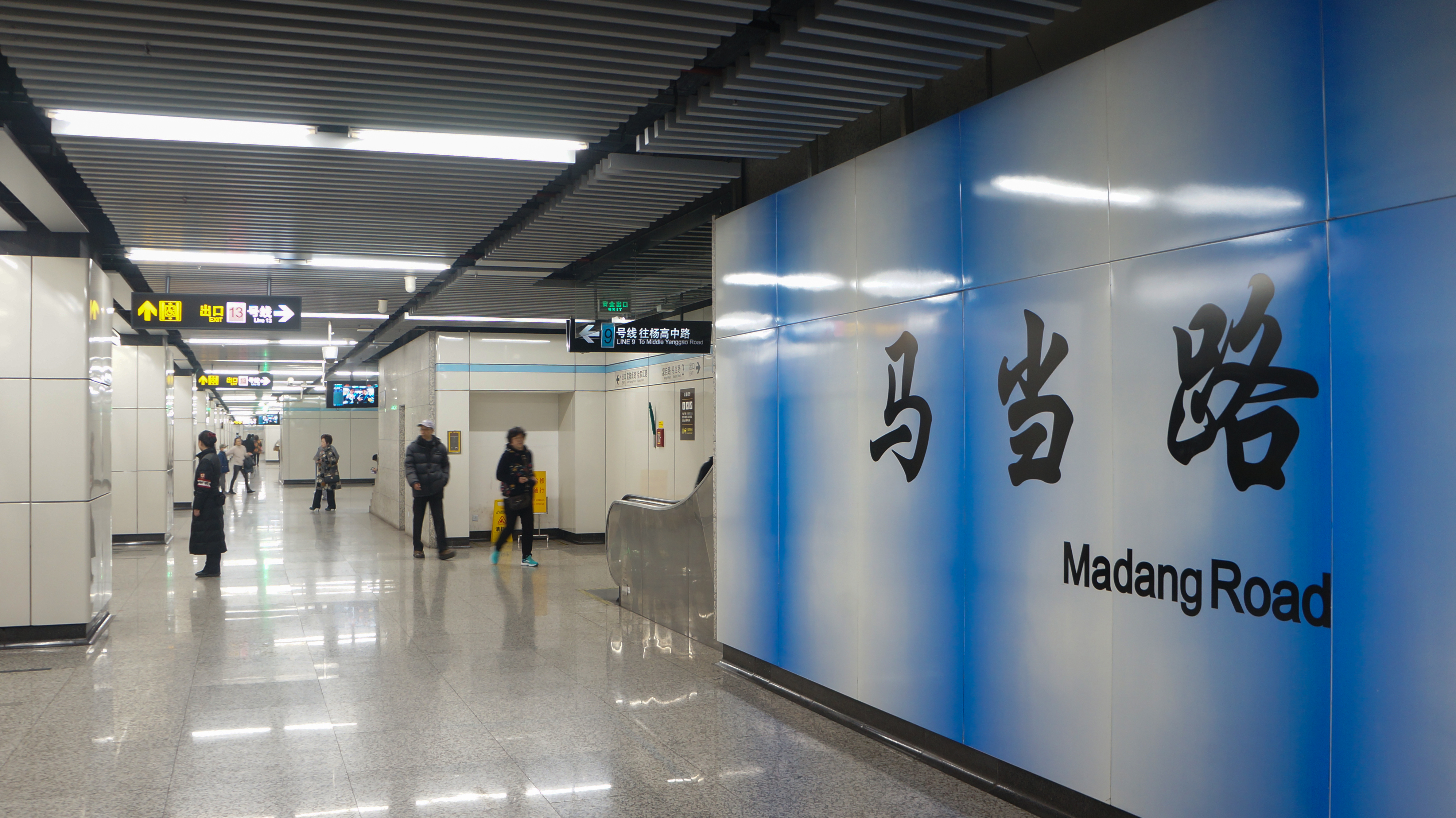 201603 Platform for L9 of Madang Road Station